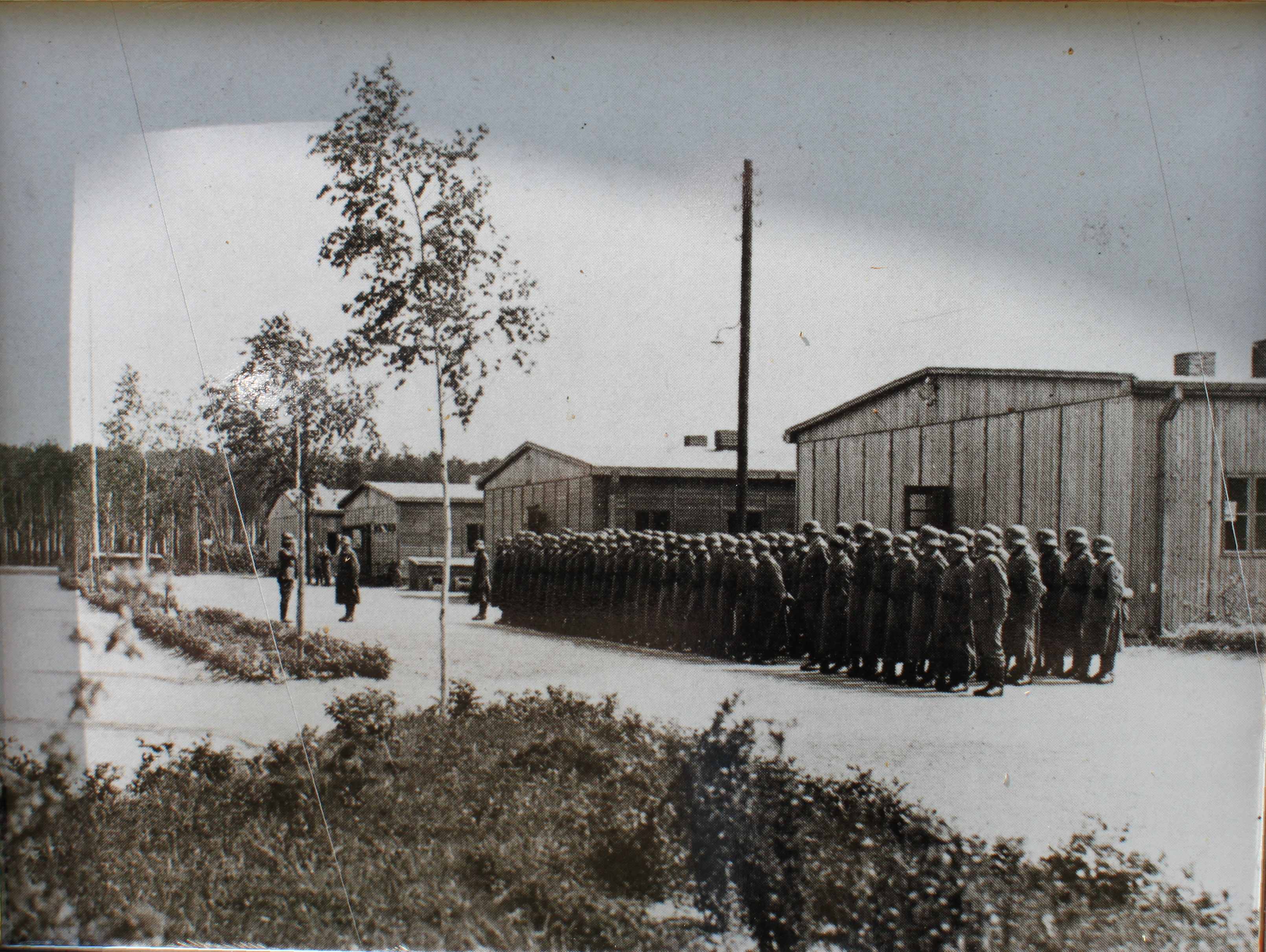 German guard in Stalag IV-B